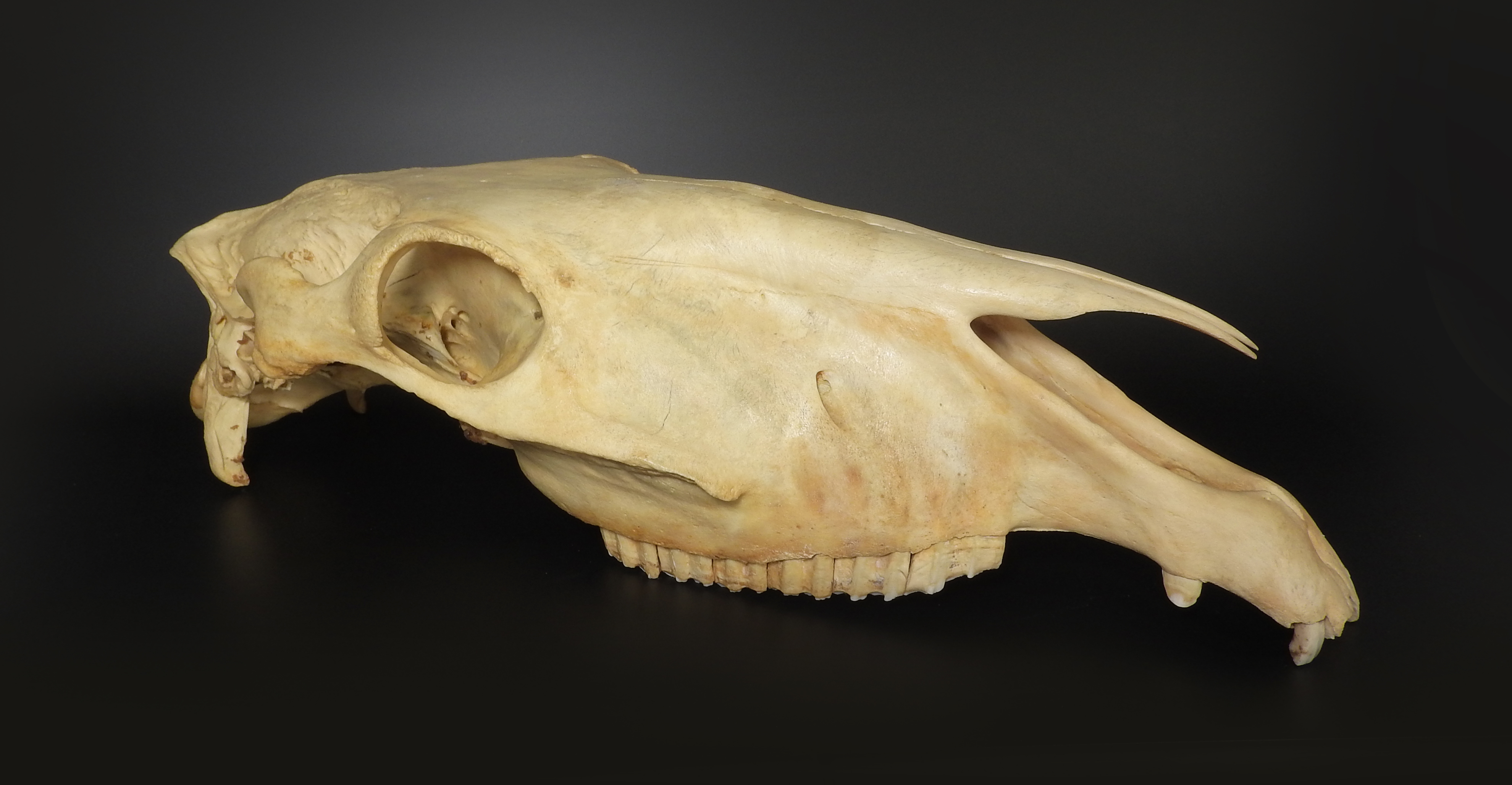 This item is a part of zoological collections of the Department of Biology and Environmental Studies of the Faculty of Education of Charles University.